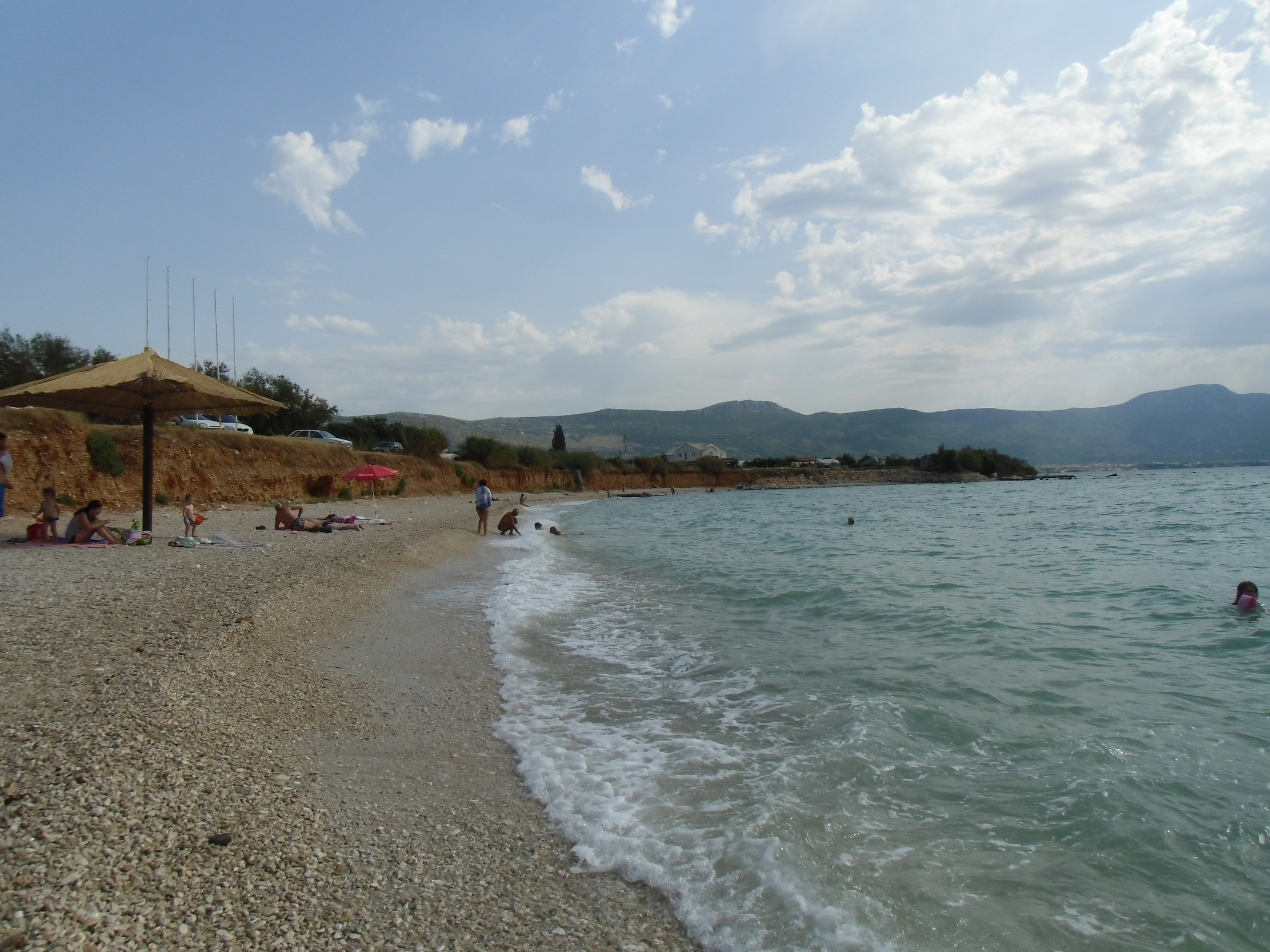 Beach in Divulje, Croatia.